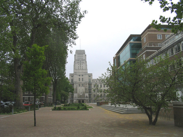 The forecourt of the School of Oriental and African Studies (main building to the left) with Senate House in the background.